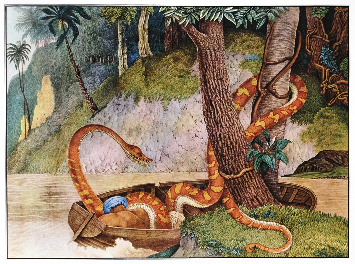 From the "Bestiarium"